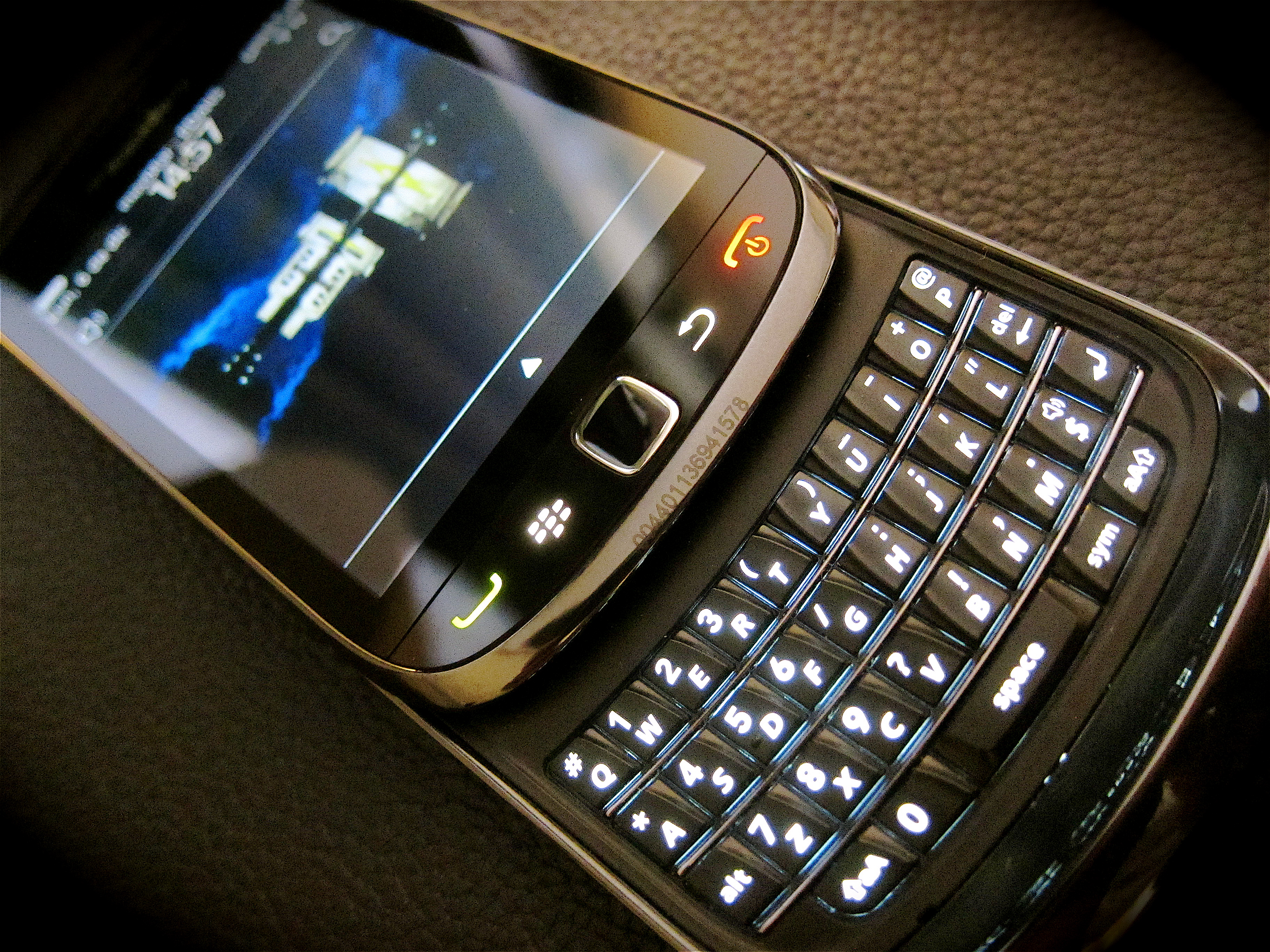 BlackBerry Torch opened